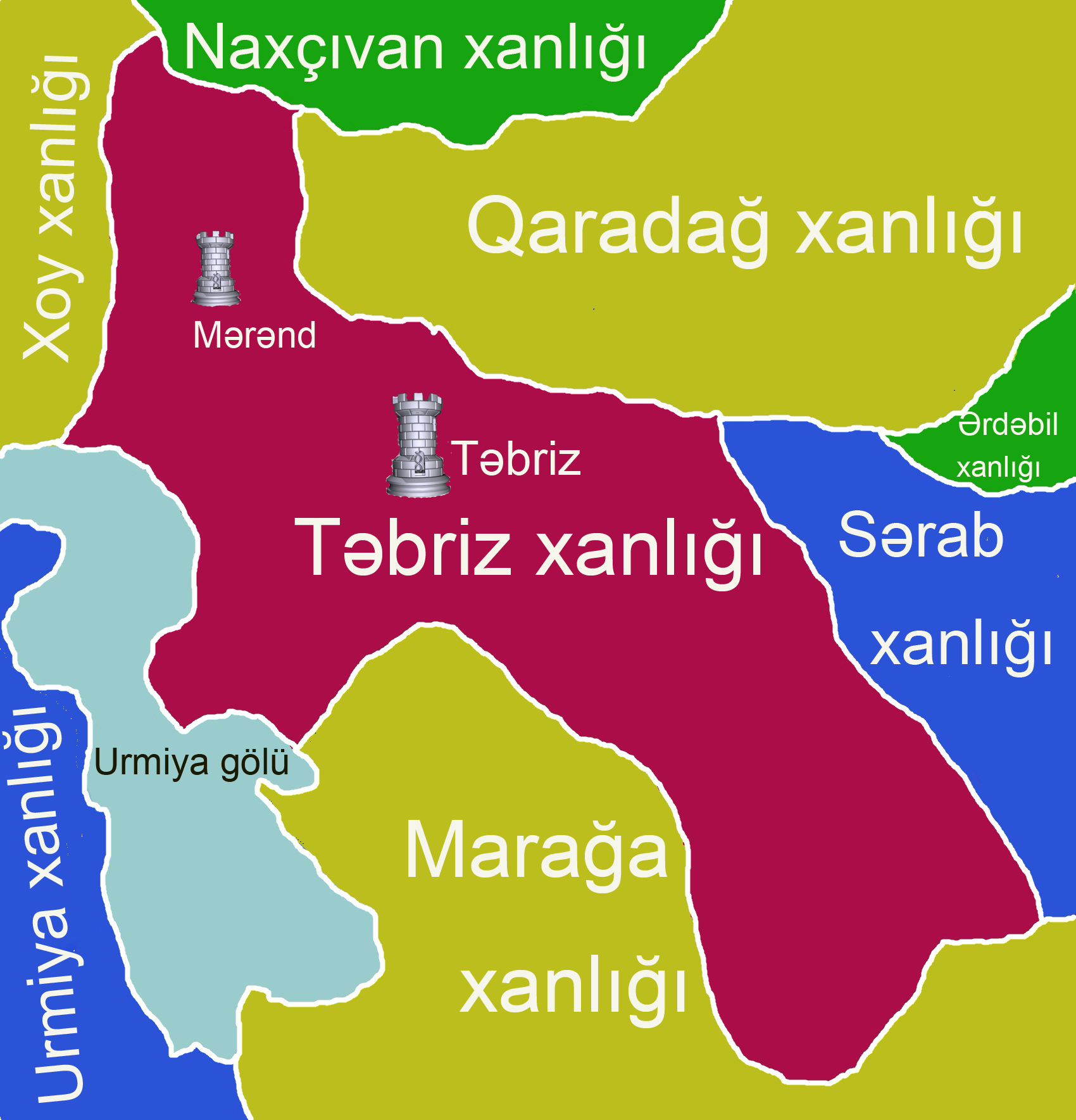 Tabriz Khanate. Territories of Northern and Southern Khanates (and Sultanates) of Azerbaijan in 18th-19th centuries Based on the original sources: 1."Frontier nomads of Iran: a political and social history of the Shahsevan" Author: Richard Tapper Cambridge University Press, 1997 ISBN 0 521 58336 5 hardback 2."Russian Azerbaijan, 1905-1920: The shaping of national identity in a muslim community" Author: Tadeusz Swietochowski Cambridge University Press, 1985 ISBN 0 521 26310 7 hardback ISBN 0 521 52245 5 paperback 3."Russia and Iran, 1780-1828" Author: Muriel Atkin University of Minnesota Press, 1980 ISBN 0 8166 0924 1